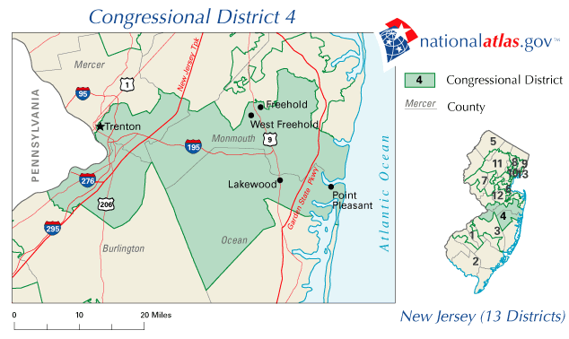 NJ's 4th US Congressional District. from Category:Congressional districts of New Jersey Category:New Jersey maps